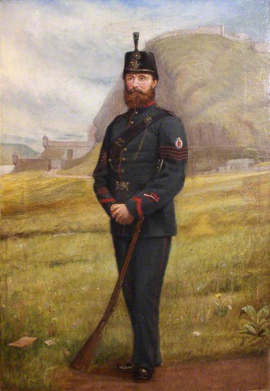 unknown artist; Sergeant A. Lawrence of the Dumbartonshire Volunteer Rifle Corp; Historic Environment Scotland